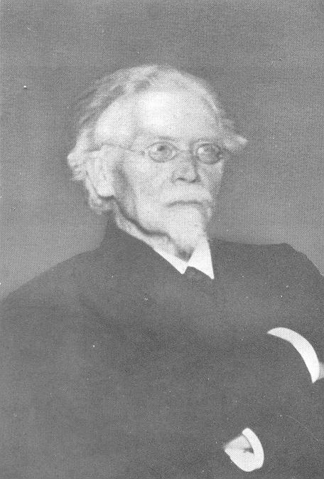 Prof dr. Gerard Heymans